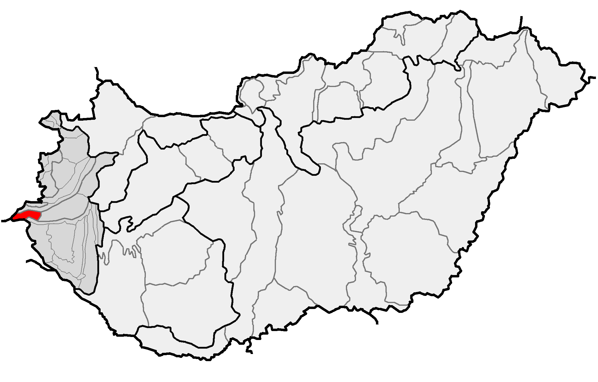 Location of geographical microregion of Vasi-Hegyhát (red) and macroregion of Nyugat-magyarországi peremvidék (gray) within subdivisions of Hungary.